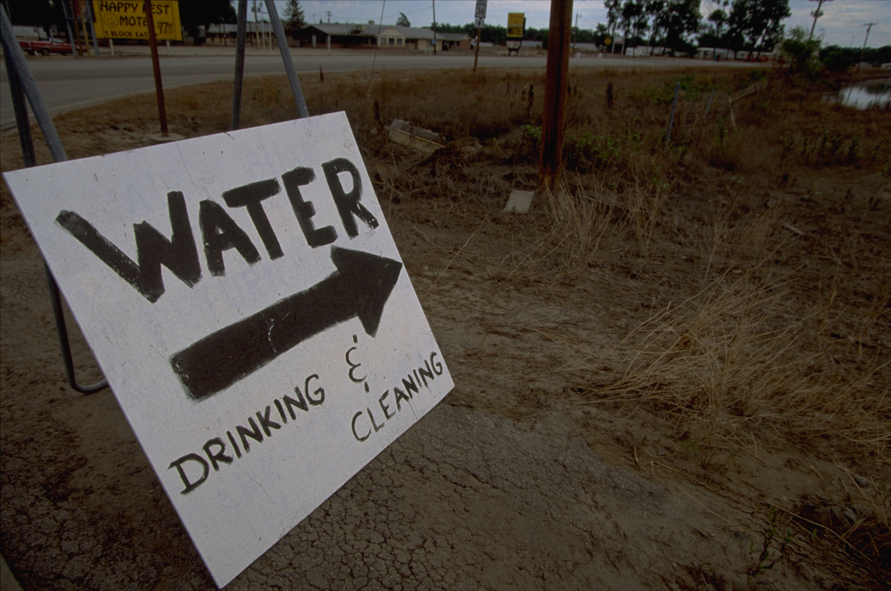 Hurricane Andrew, FL, August 24, 1992 -- FEMA provides food, water, clothing, and temporary housing for those people who were affected by the hurricane. One million people were evacuated and 54 died in this hurricane. FEMA News Photo